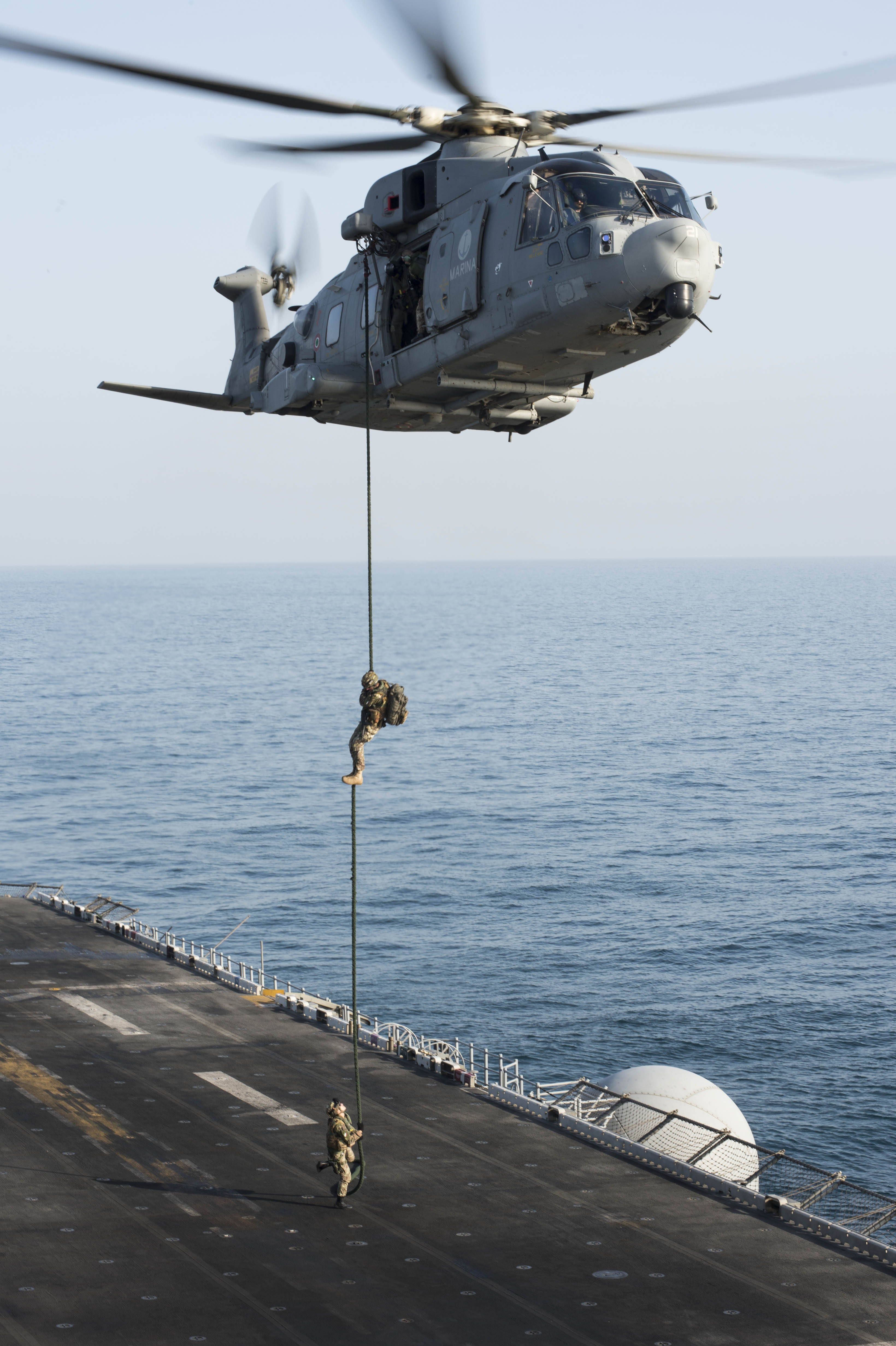 Italian marines fast rope from an Italian AgustaWestland EH101 helicopter onto the flight deck aboard the U.S. Navy amphibious assault ship USS Boxer (LHD-4) in the Arabian Gulf.